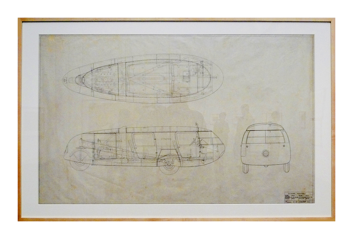 The Dymaxion car was a concept car designed by U.S. inventor and architect Buckminster Fuller in 1933.